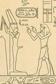 Drawing of a rock inscription from Wadi Hammamat: pharaoh Nebtawyre Mentuhotep IV (right) gives offerings to the god Min (left). Reign of Mentuhotep IV, end 11th Dynasty, Middle Kingdom.